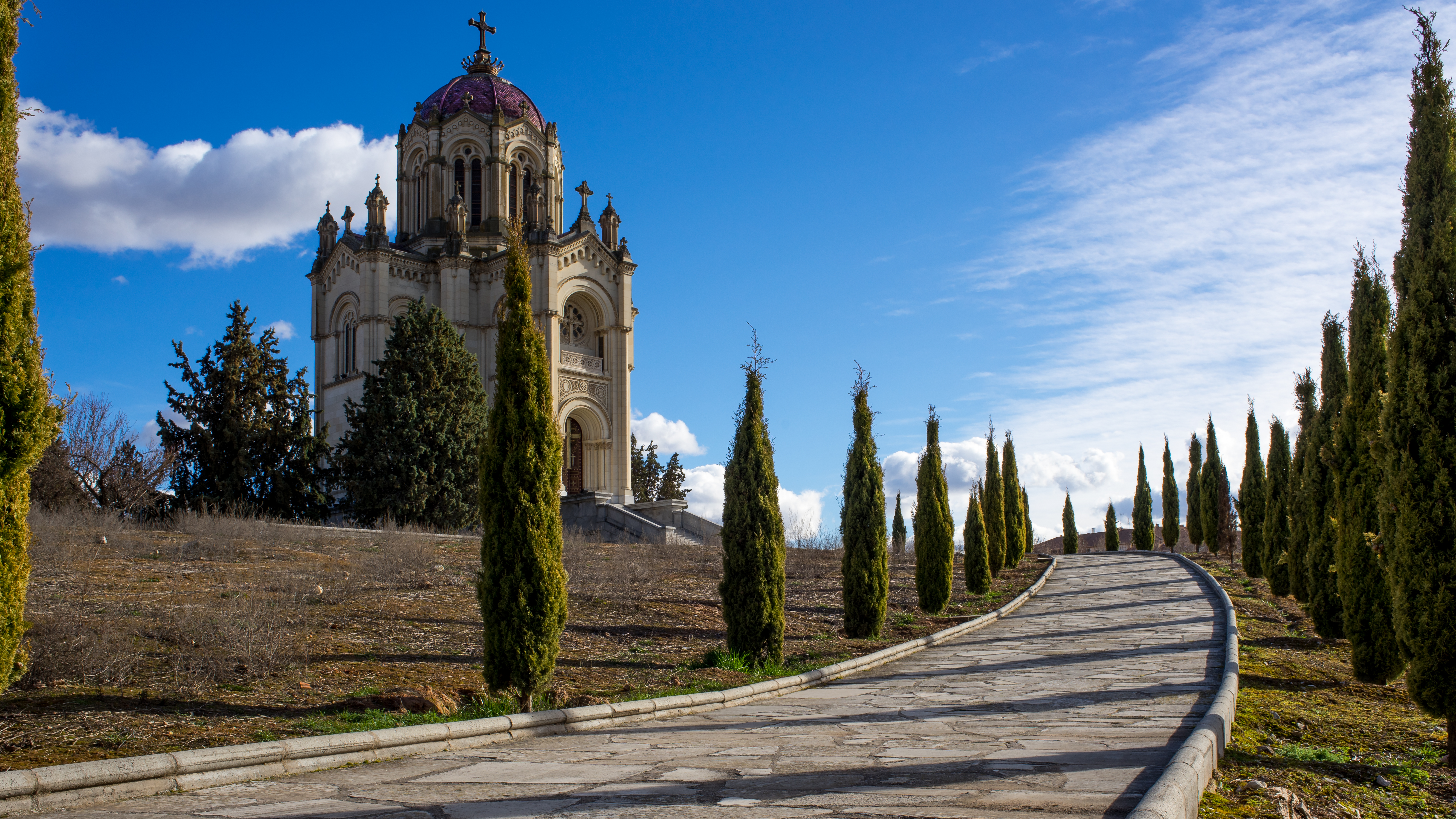 Sony Alpha a7 (ILCE-7) + Carl Zeiss Distagon T* 28mm f2.8 C/Y (Contax/Yashica) @ 28mm f16 1/80s ISO-100